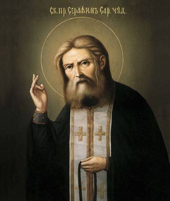 Saint Seraphim of Sarov (Russian: Серафим Саровский) (30 July [O.S. 19 July] 1754 (or 1759) – 14 January [O.S. 2 January] 1833), born Prokhor Moshnin (Прохор Мошнин), is one of the most renowned Russian saints and venerated both in the Eastern Orthodox Church and the Catholic Church. He is generally considered the greatest of the 19th-century startsy (elders). Seraphim extended the monastic teachings of contemplation, theoria and self-denial to the layperson. He taught that the purpose of the Christian life was to acquire the Holy Spirit. Perhaps his most popular quotation amongst Orthodox believers is "Acquire a peaceful spirit, and thousands around you will be saved." Saint Seraphim was Canonized by the Russian Orthodox Church in 1903. The Pope of Rome Saint John Paul II referred to him as a saint.